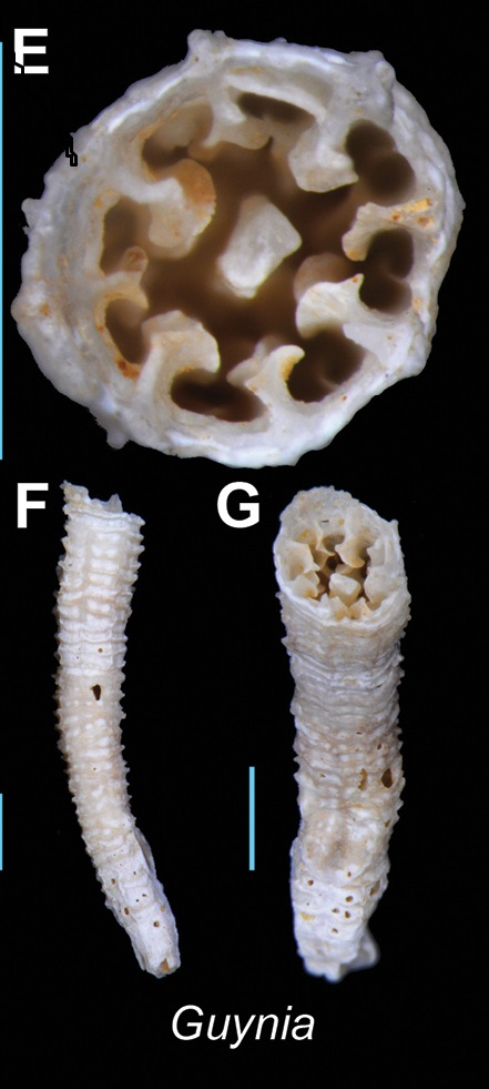 Guynia, a coral of the family Scleractinia.